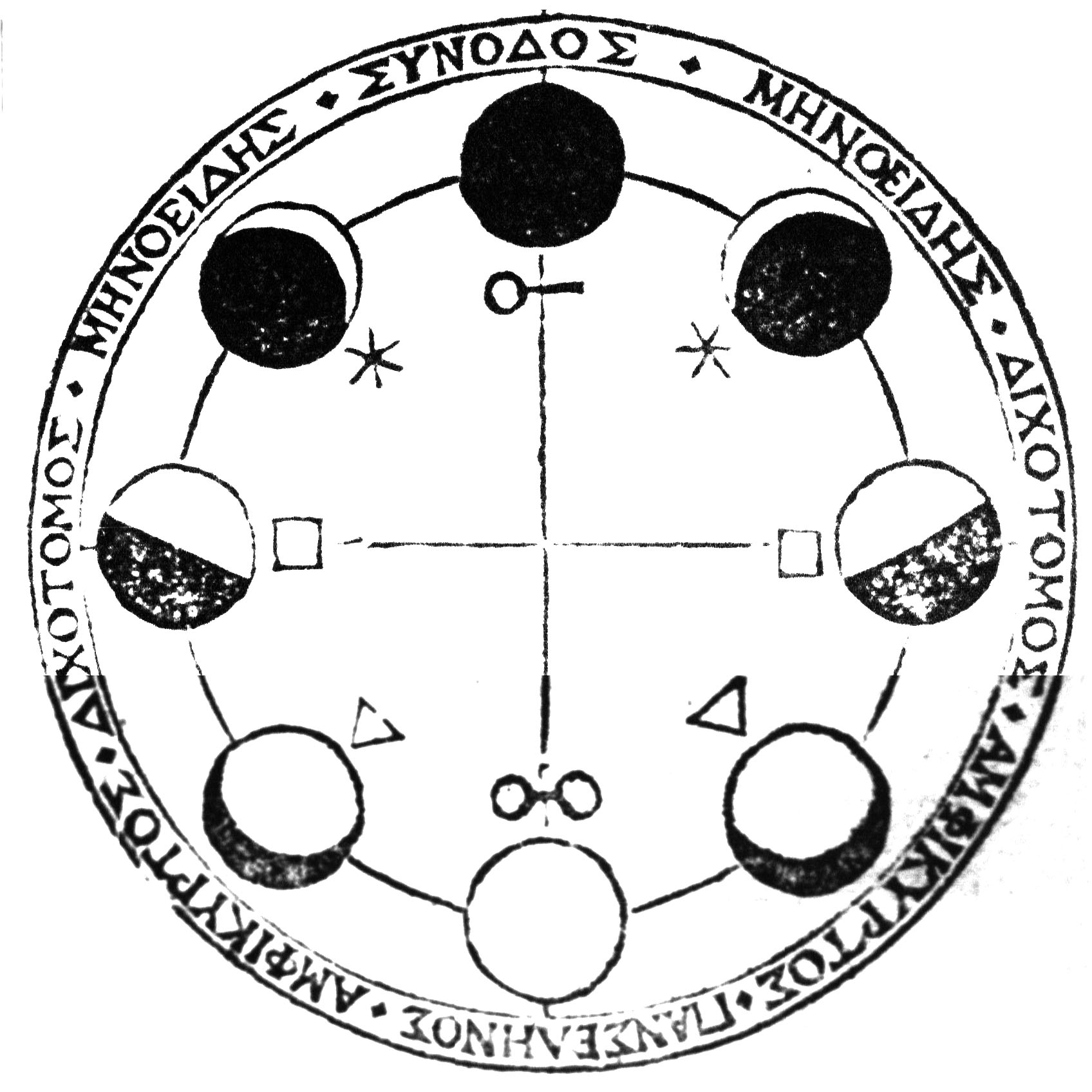 Aspect figures (planet angle in the horoscope), illustrated by the example of the moon phases In: Sacrobosco, Book of the Spheres. Wittenberg 1548 IOANNIS DE SACROBVSTO LIBELLVS DE SPHÆRA CVM PRÆFATIONSE Philippi Melanthonis Book owned by the author, see: Melanchthons Astrologie - Der Weg der Sternenwissenschaft zur Zeit von Humanismus und Reformation. Wittenberg 1997, ISBN 3-9804492-8-9 Catalog of the exhibition of the same name in the Reformation-Historical Museum Lutherhalle Wittenberg The Wittenberg edition of this textbook of astrology and astronomy of the Middle Ages, which was written in the 13th century, was preceded by a letter from Melanchthon to Symon Gryneus. Here is the translation of a passage of the Latin text: "Thus, since human souls are not moved by some sort of reason, it follows that the laws of destinies are adversely affected in various ways, sometimes by divine breath, sometimes by instruction, sometimes by reflection, and it follows that Ptolemy says: The decisions of the astrologers are not praetoric, for the praetor's decisions compel the people to obey, but those signs do not impose violence on people, even if they do not idle everywhere."